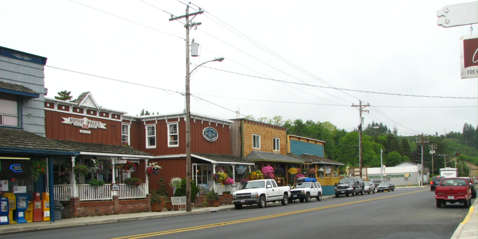 The central business district of Nehalem, Oregon, United States, looking east along Highway 101, June 17, 2007.